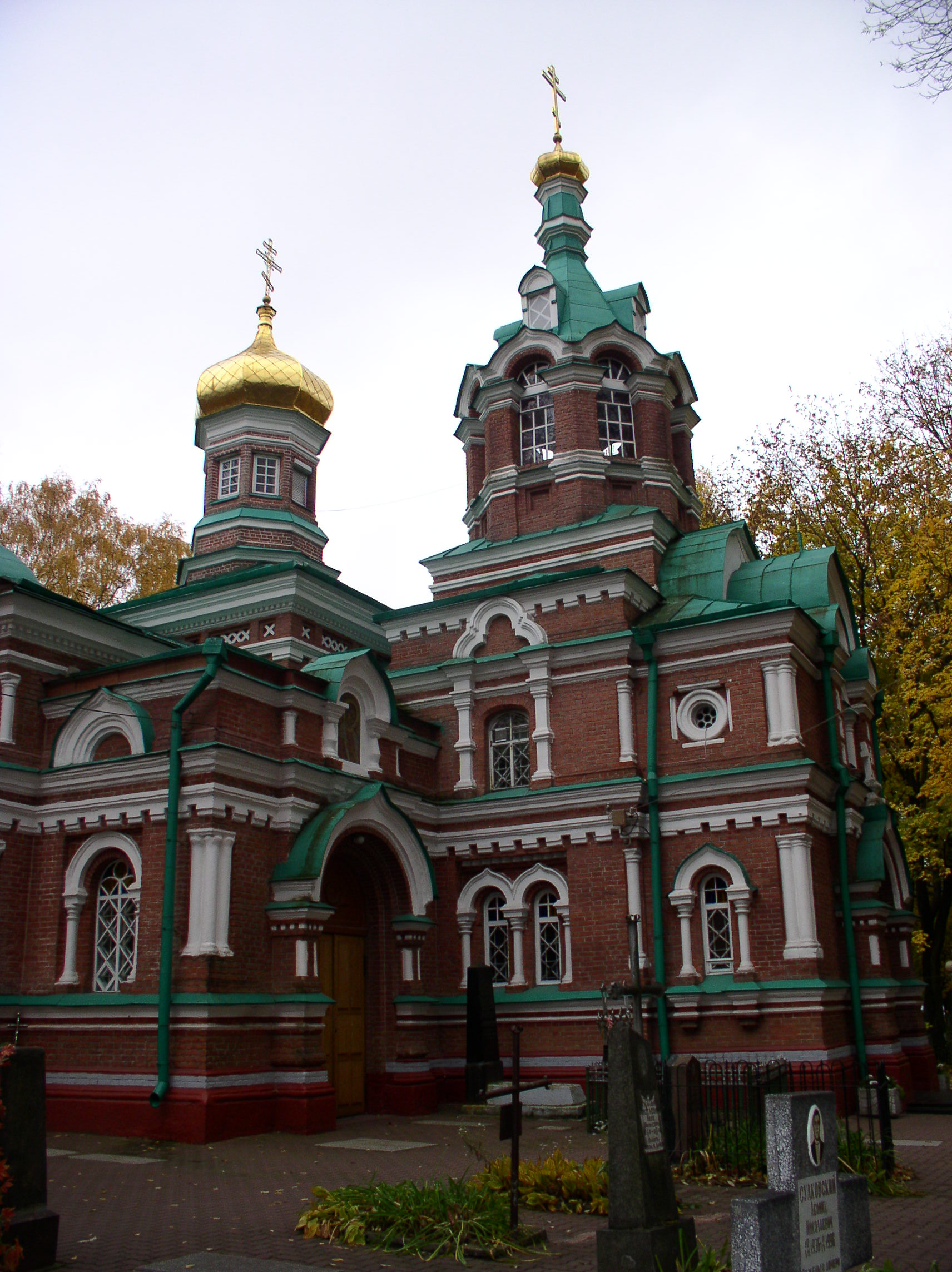 Church of Saint Alexander Nevsky. Military cemetery. Minsk, Belarus.